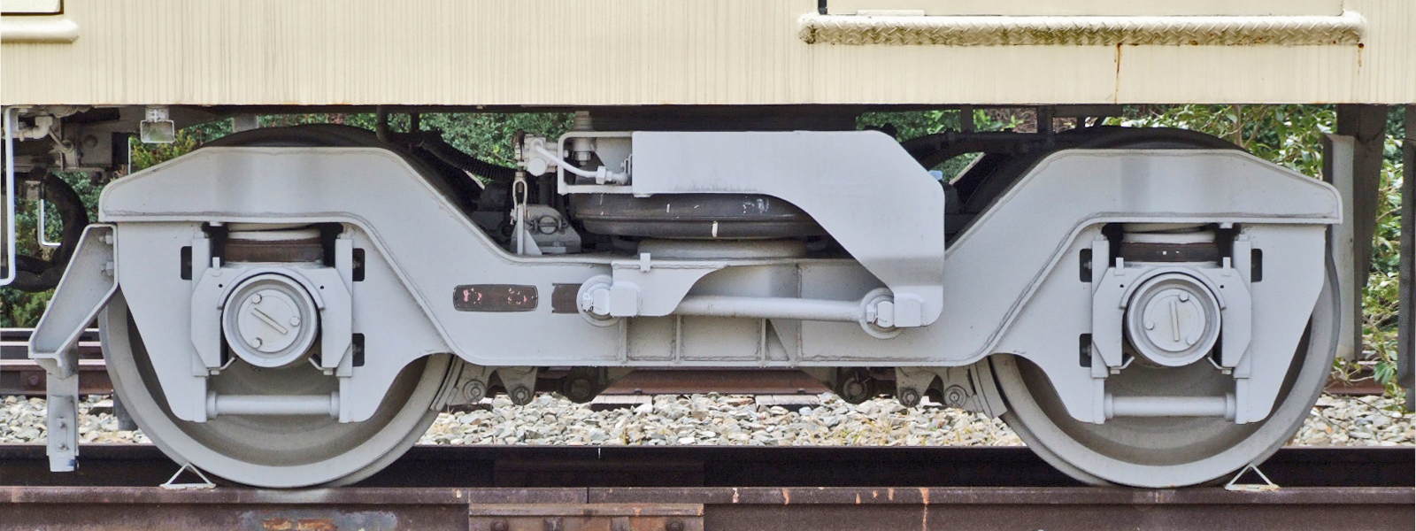 Bogie Truck TS-805A,Series 5000 of Keio Corporation,Japan